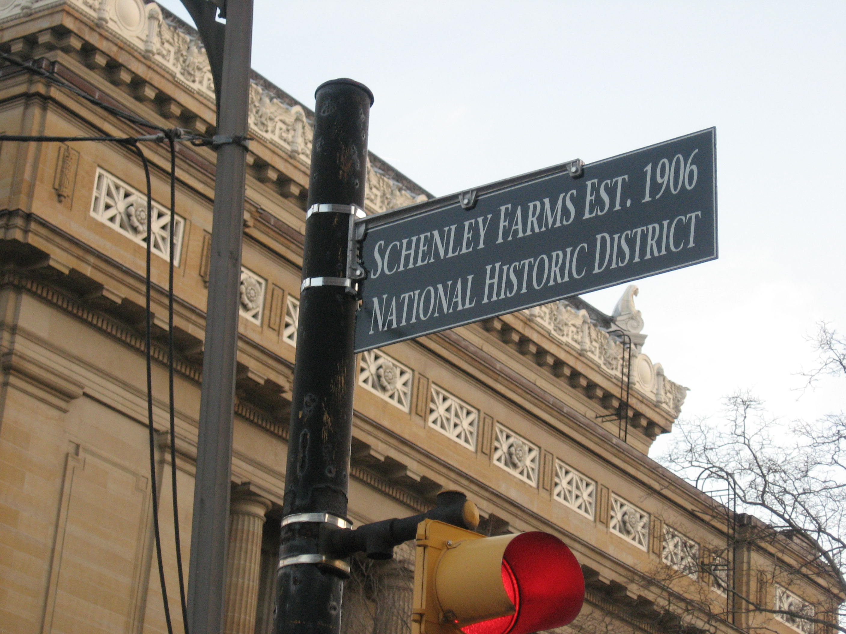 Sign showing Schenley Farms Historic District in Pittsburgh 40°26′44.5″N 79°57′23.4″W / 40.445694°N 79.9565°W